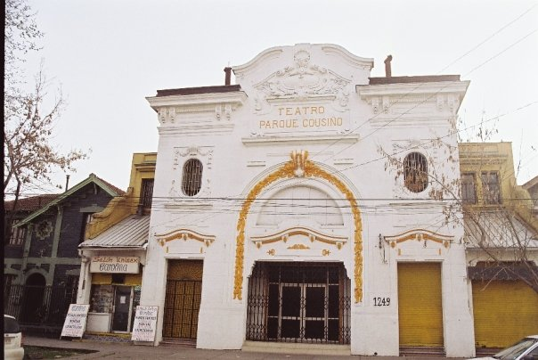 Teatro